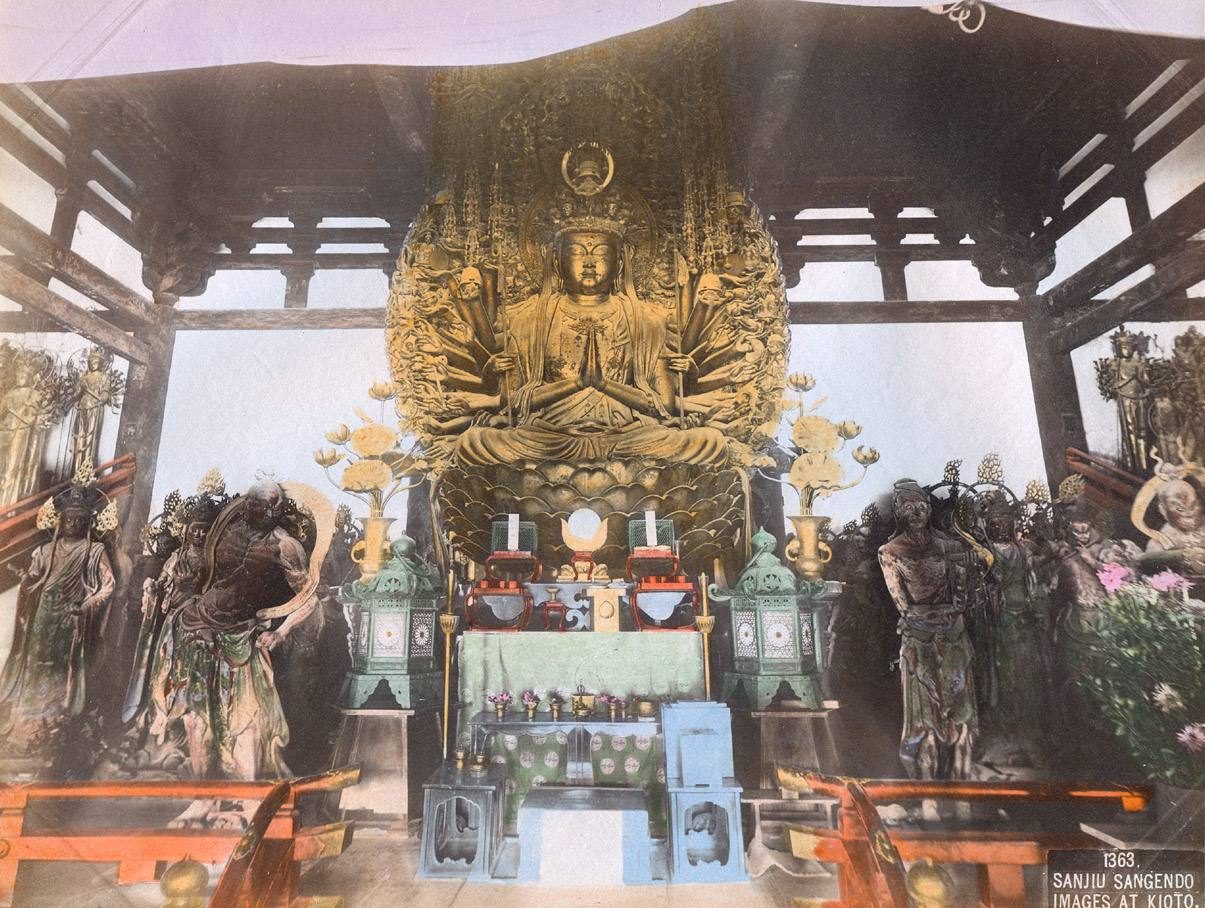 1363 Sanjiu Sangendo Images at Kioto